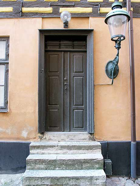 The old buildings in the block of "St Gertrud" in Malmo, Sweden.